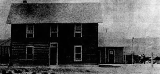 The Herschler family home near Kemmerer, Wyoming in 1912